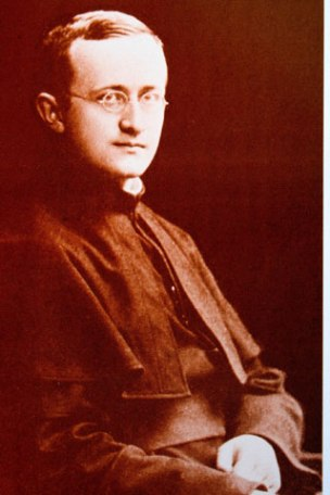 Photo taken when Joseph Kentenich was ordained priest, on July 8 1910, in Limburg-an-der-Lahn, Germany.